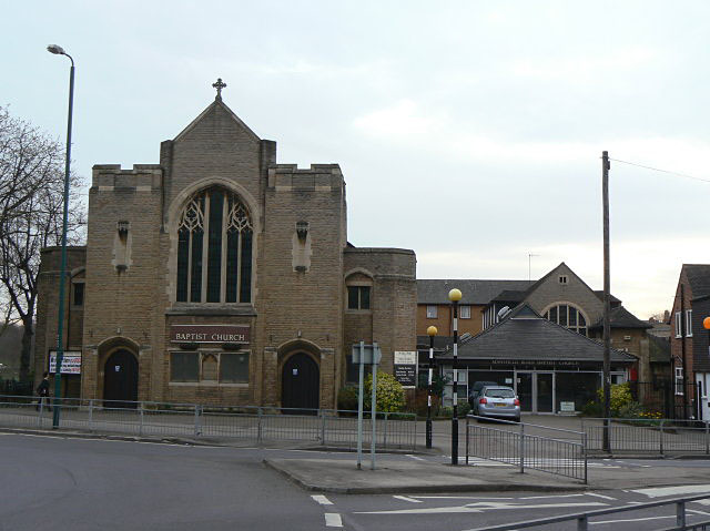 Mansfield Road Baptist Church 'The church on the corner'. It's not actually on Mansfield Road at all, but is sited on the corner of Sherwood Rise and Gregory Boulevard. Built in 1912.